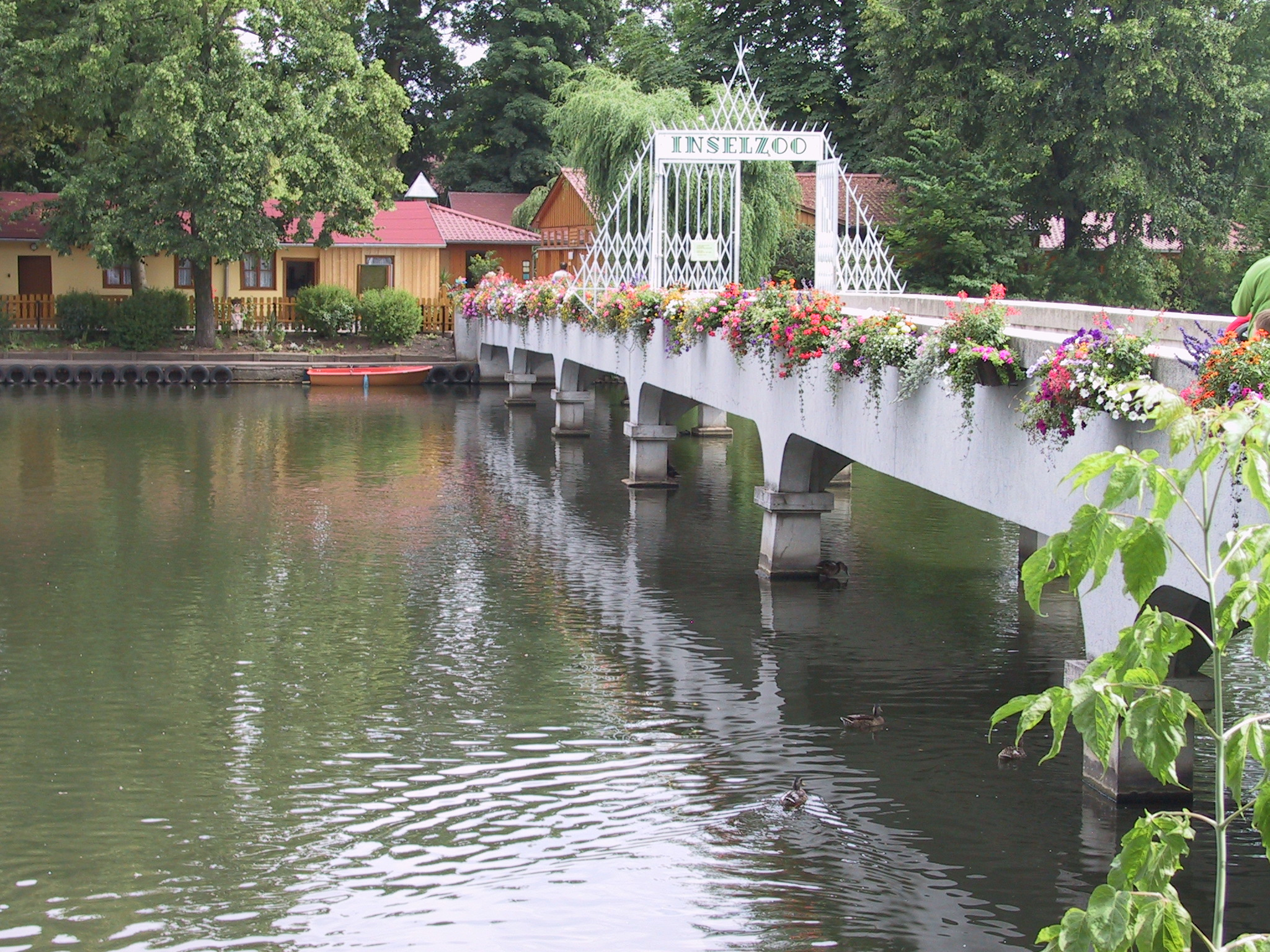 Entrance of the Inselzoo Altenburg